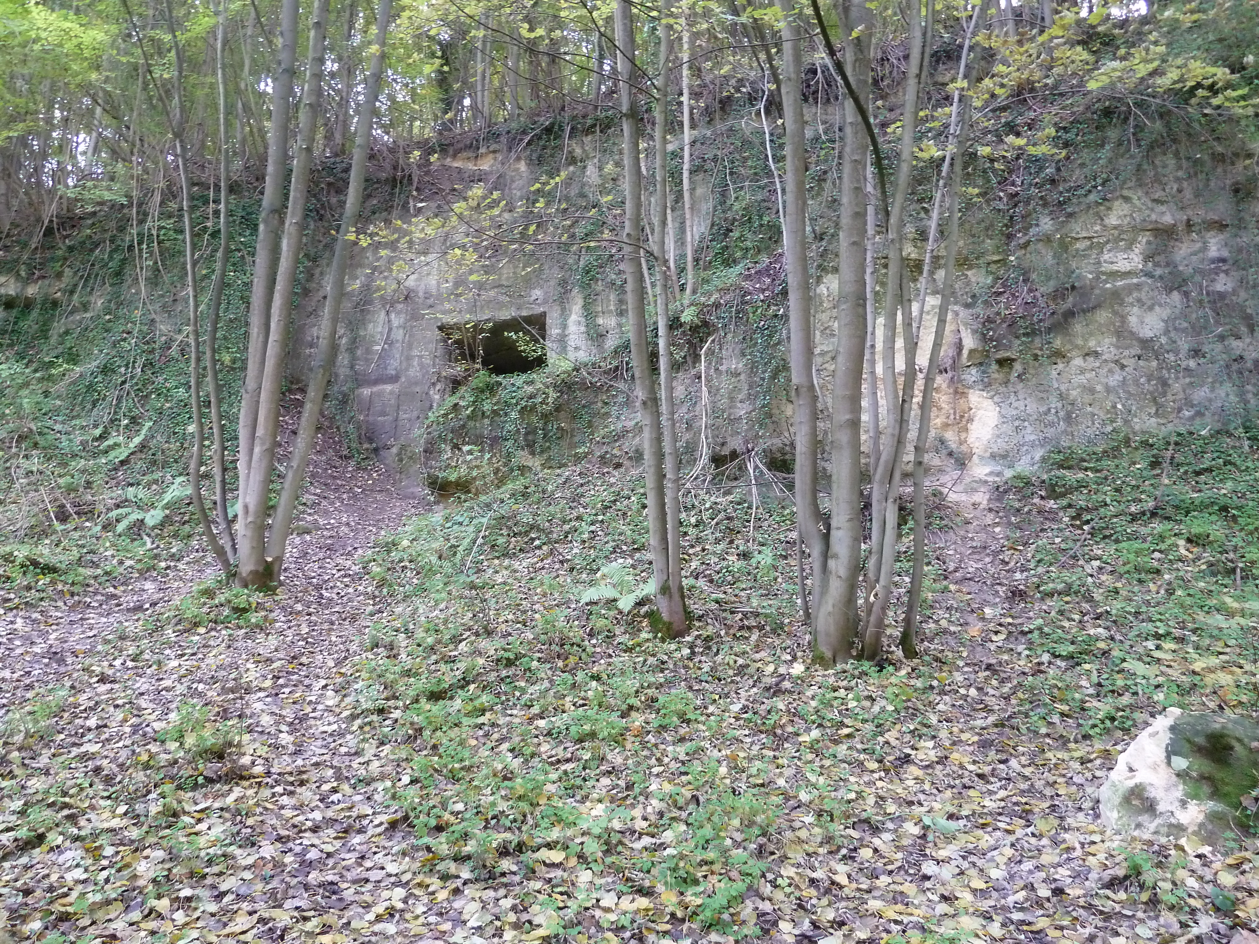 Geological monument Zuidelijke Dalwand Geul, Geulhem, Limburg, the Netherlands